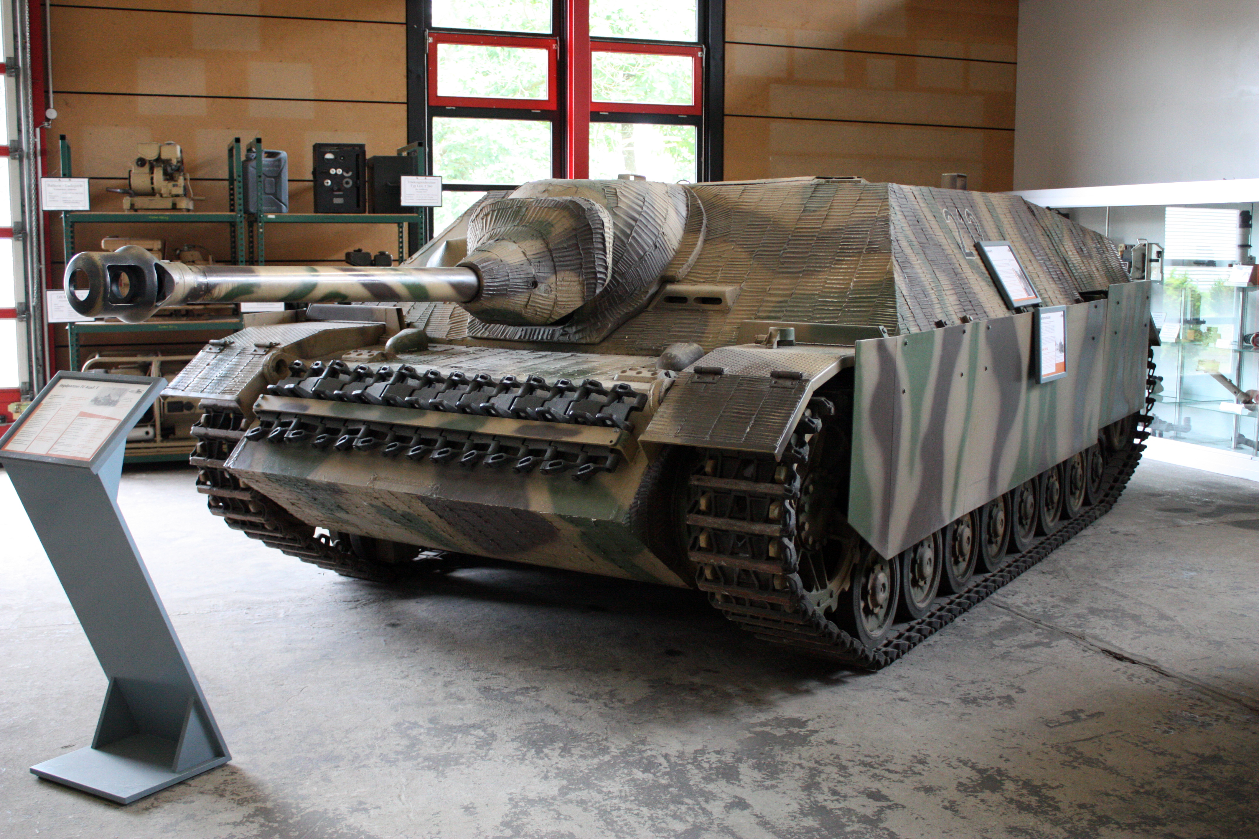 German Tank Museum